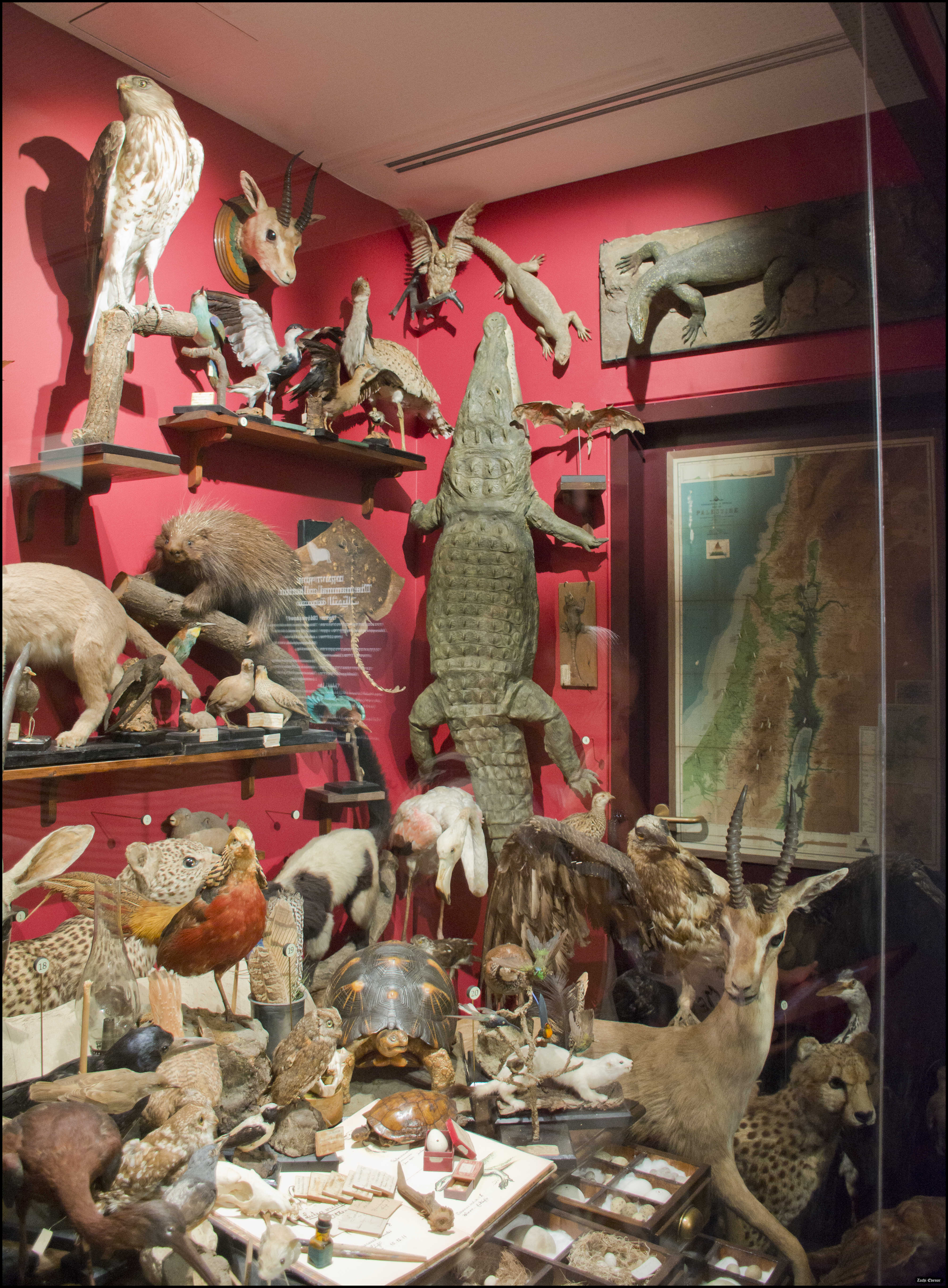 The collection of Father Schimtz, an zoologist of the late 19th and early 20th centuries. The collection include's the last wild crocodile in the Land of Israel. Steinhardt Museum of Natural History, Tel Aviv University, Israel